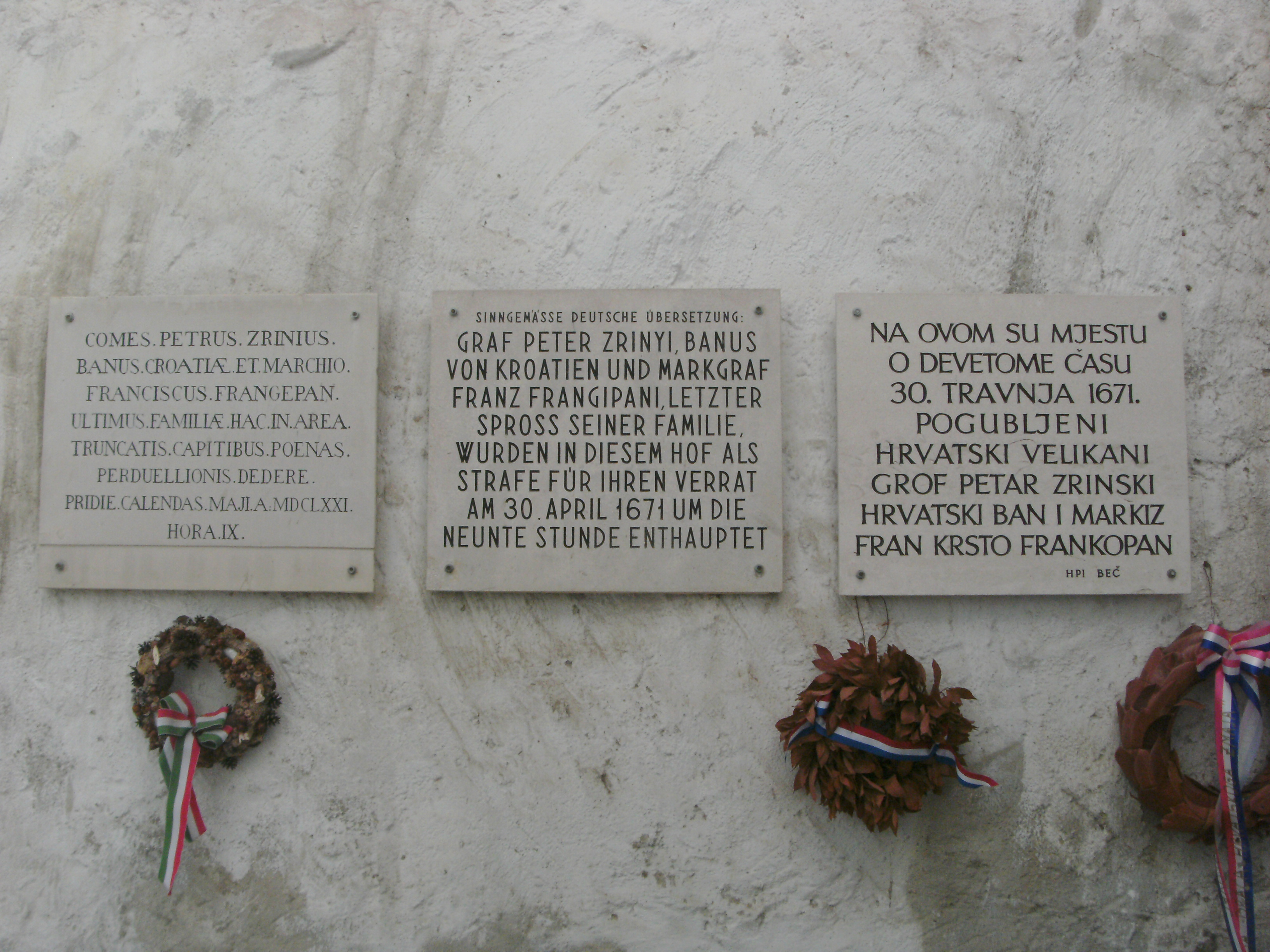 Memorial plates in Latin, German and Croat at the execution site of Petar Zrinski and Fran Krsto Frankopan in Wiener Neustadt, Lower Austria.The site has thoroughly been altered since. The plates are on the area of a furniture outlet.